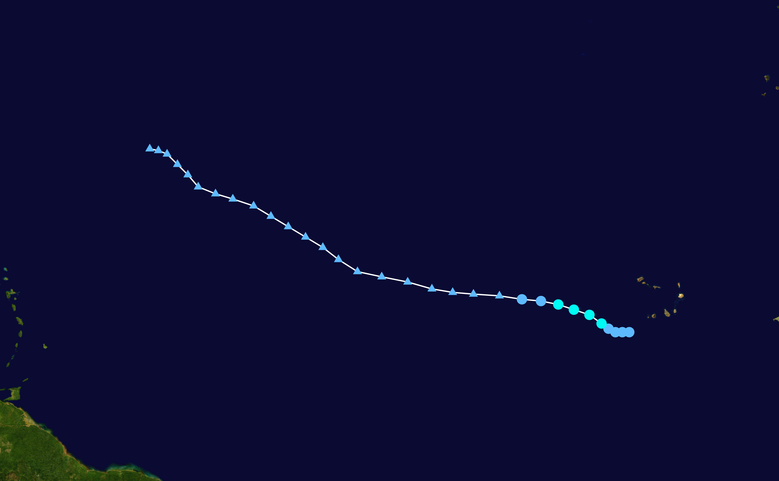 Track map of Tropical Storm Melissa of the 2007 Atlantic hurricane season. The points show the location of the storm at 6-hour intervals. The colour represents the storm's maximum sustained wind speeds as classified in the Saffir–Simpson scale (see below), and the shape of the data points represent the nature of the storm, according to the legend below. Saffir–Simpson scale Tropical depression≤38 mph≤62 km/h Category 3111–129 mph178–208 km/h Tropical storm39–73 mph63–118 km/h Category 4130–156 mph209–251 km/h Category 174–95 mph119–153 km/h Category 5≥157 mph≥252 km/h Category 296–110 mph154–177 km/h Unknown Storm type Tropical cyclone Subtropical cyclone Extratropical cyclone / Remnant low / Tropical disturbance / Monsoon depression